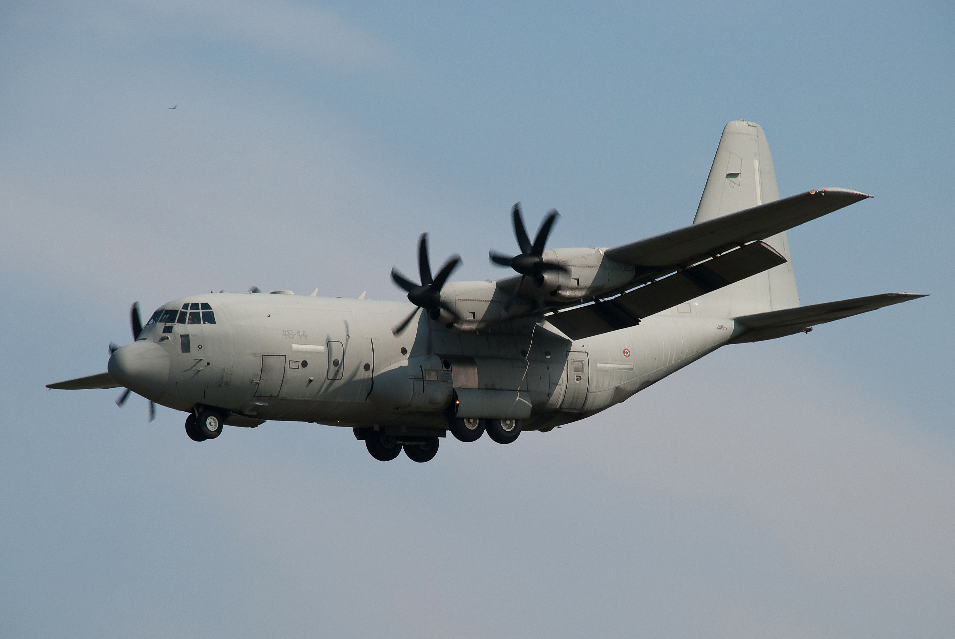 Italy, Italian Air Force C-130J Hercules 46 - 44.